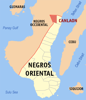 Map of Negros Oriental showing the location of Canlaon